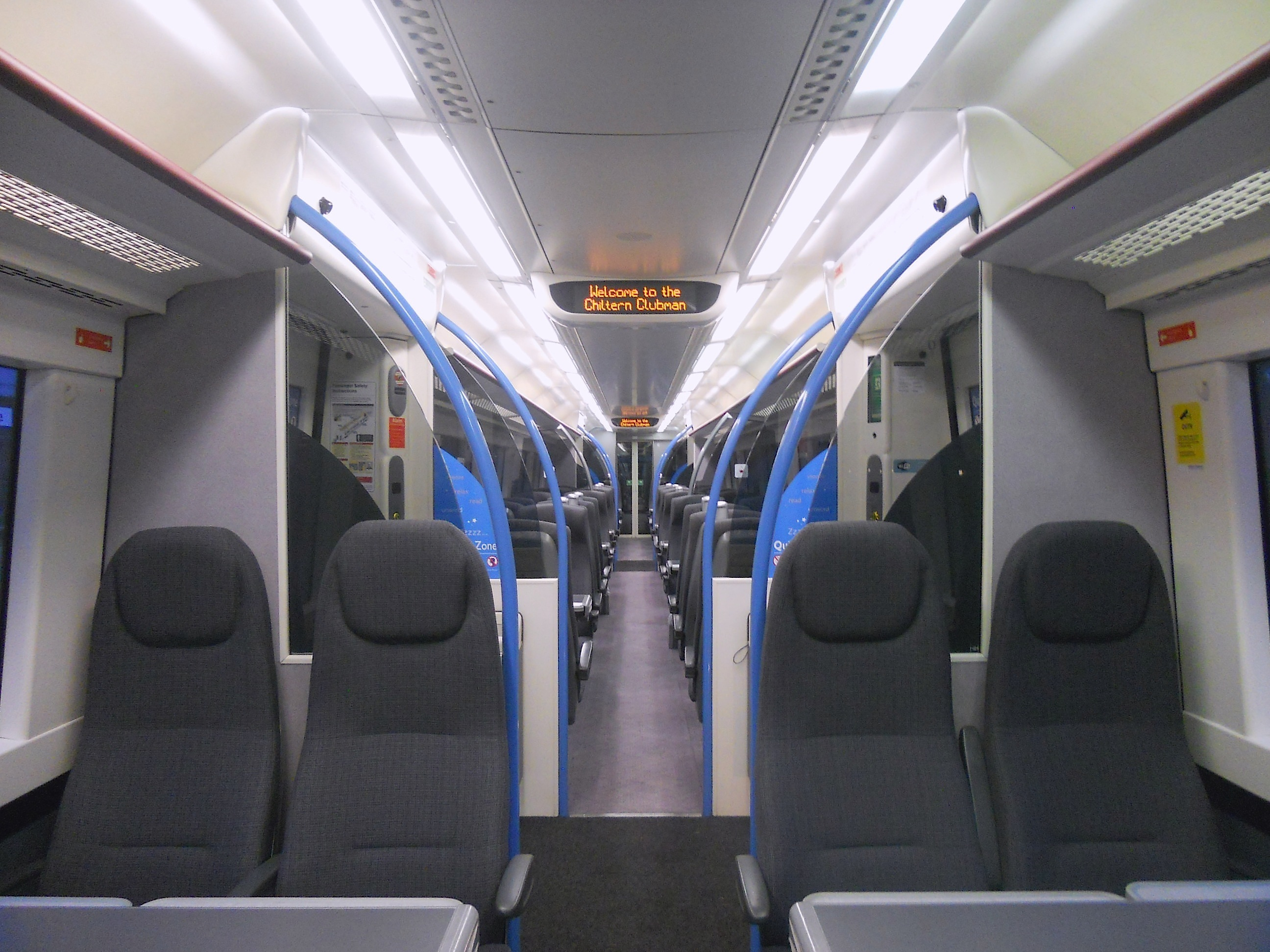 The interior of the MSO vehicle from a Chiltern Railways Silver Mainline refurbished Class 168